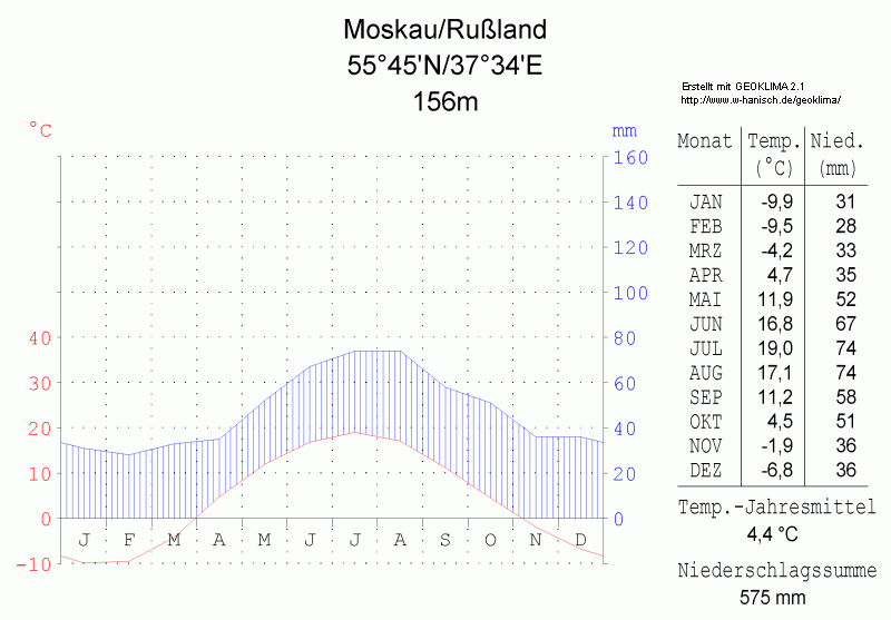 climate chart in the format by Walther and Lieth, metric, °Celsisus and millimeters, made with Geoklima 2.1